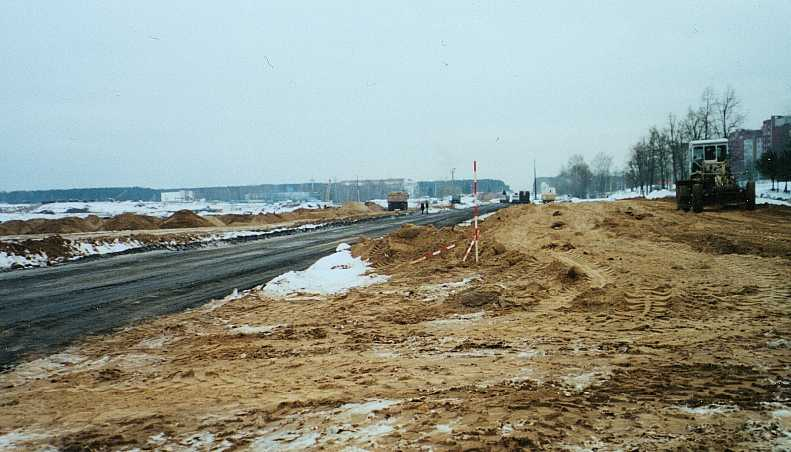 Minsk ring road (MKAD) under construction through Kurapaty. Taken in 2000.